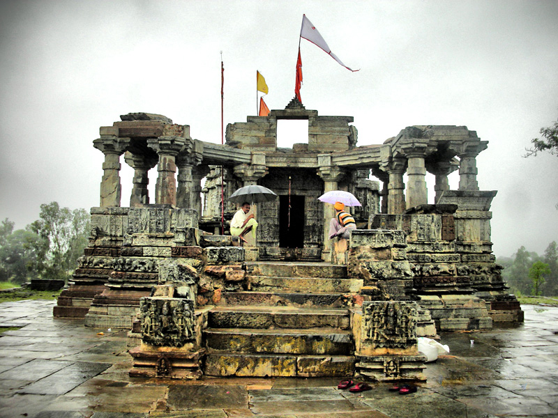 Old Ruined temple of Mahadev